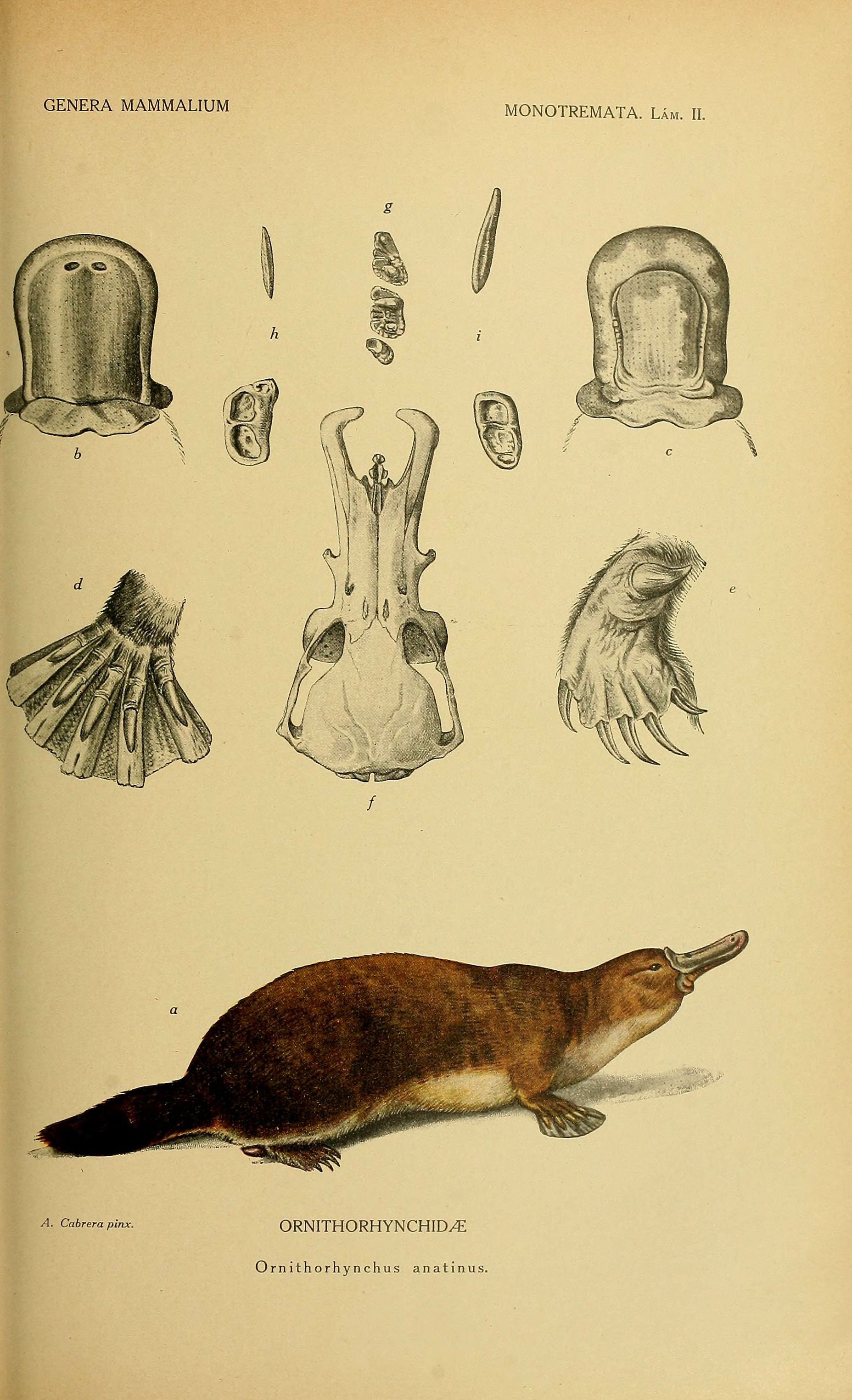 GENERA MAMMALIUM MONOTREMATA. Lám. II. A. Cabrera pi, ORNITHORHYNCHID/E Ornithorhvnchus anatinus.